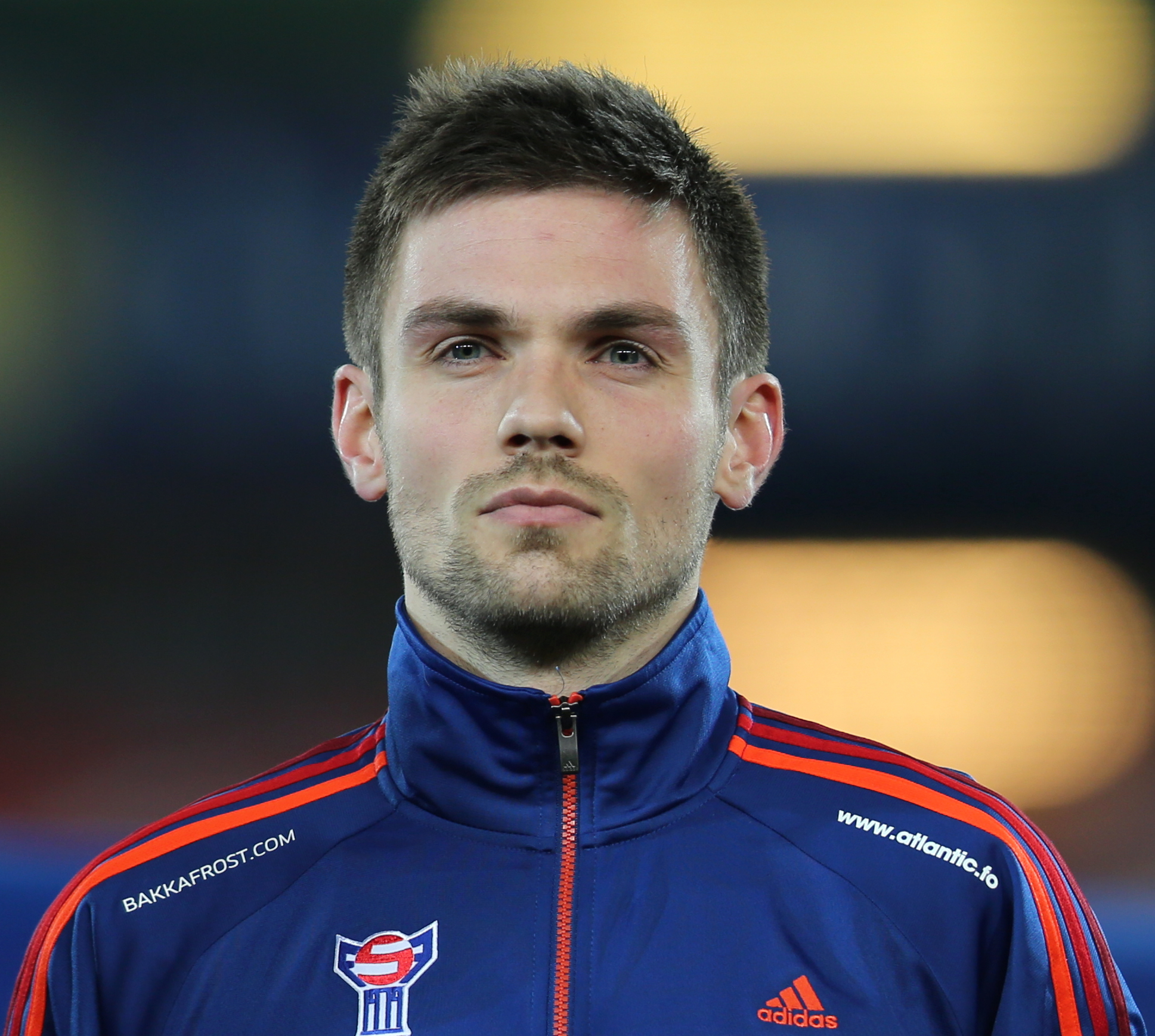 2014 FIFA World Cup qualification (UEFA), Group C: Austrian national football team vs. Faroer Islands national football team (6:0) at 22. March 2013 in the Ernst-Happel-Stadion in Vienna. Here: Jónas Þór Næs, defender of the Faroe Islands.